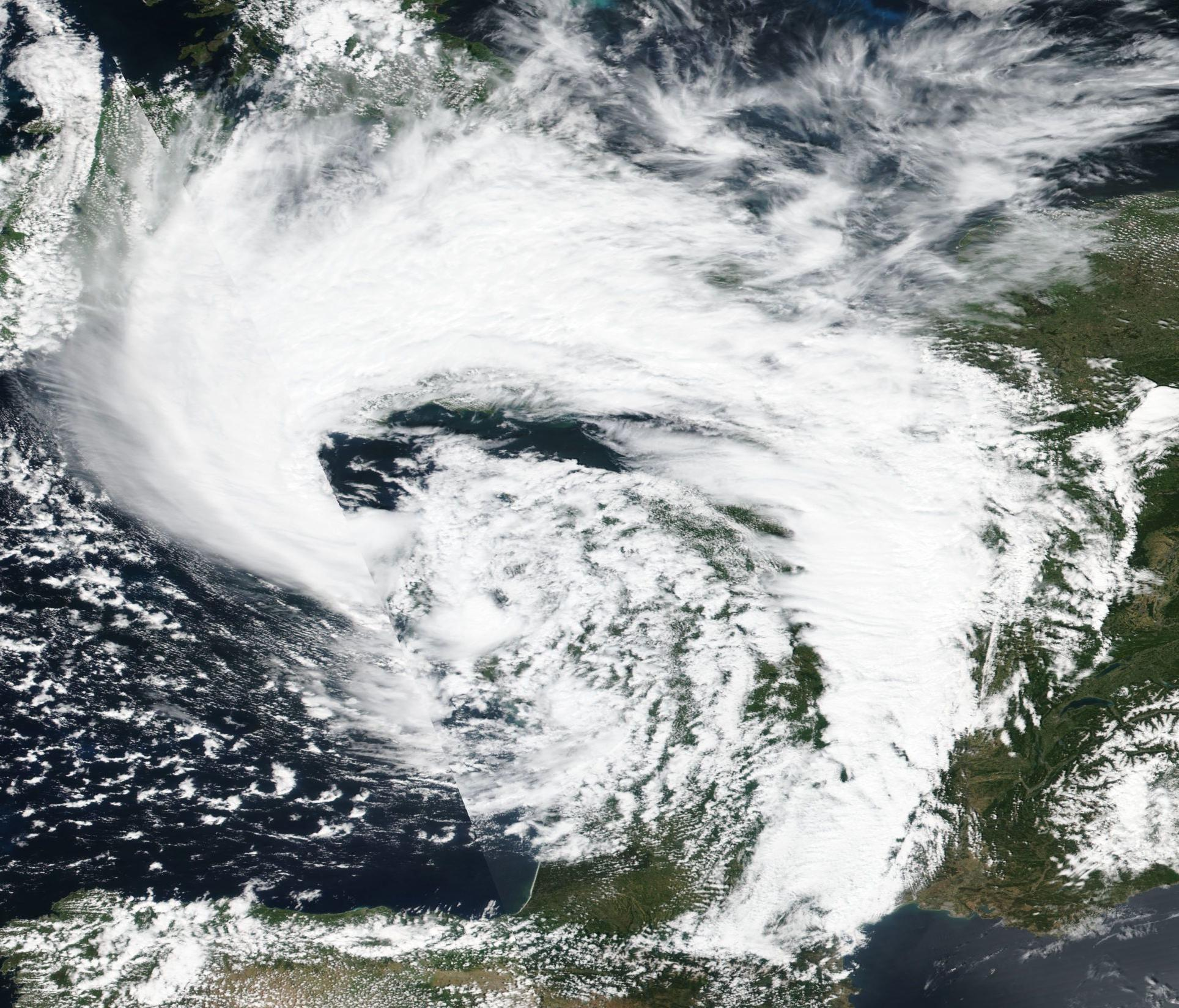 Storm Miguel, of the 2018-2019 European windstorm season, at the coast of France.